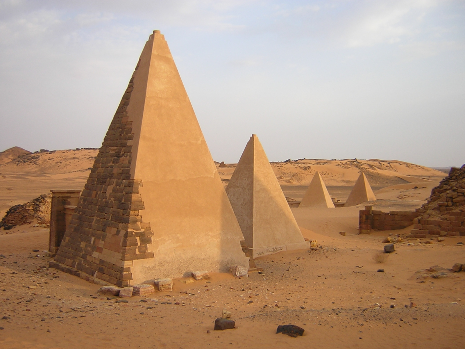 Pyramids of Meroe, Sudan.